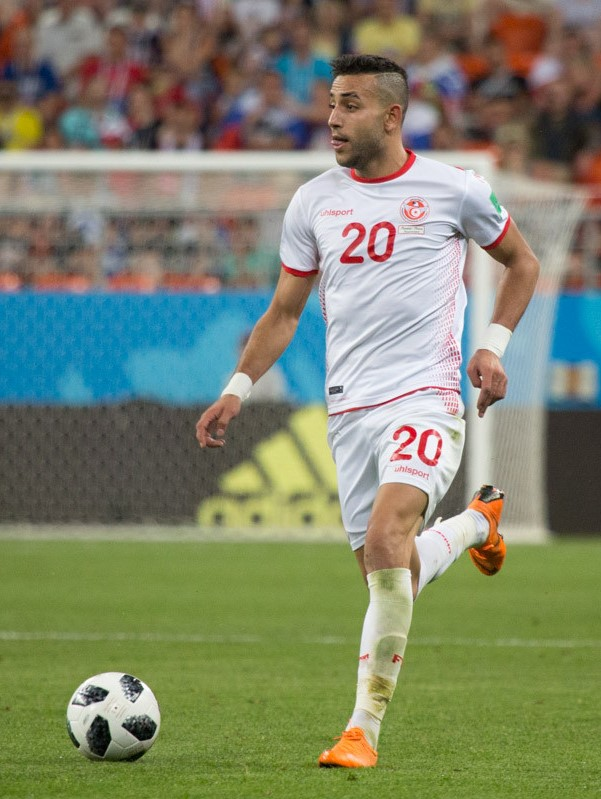 Ghailene Chaalali